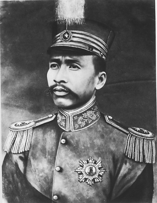 Zhang Wenguang (1884-1914)